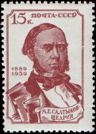 The Soviet Union 1939 CPA 702 stamp (Mikhail Saltykov-Shchedrin 15k). Seriesː 50th Death Anniversary of Mikhail E. Saltykov-Shchedrin (N. Shchedrin, 1826-1889), Writer and Satirist